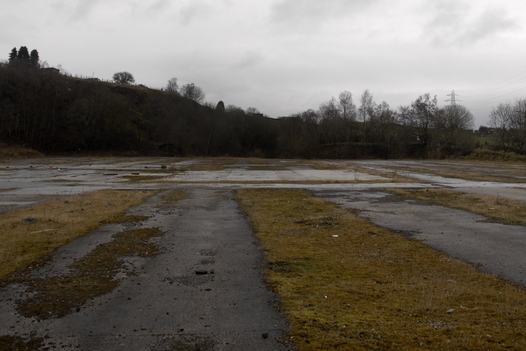 Image shows the site of Denholme railway station looking north. For many years after closure, a timber merchant occupied this site.